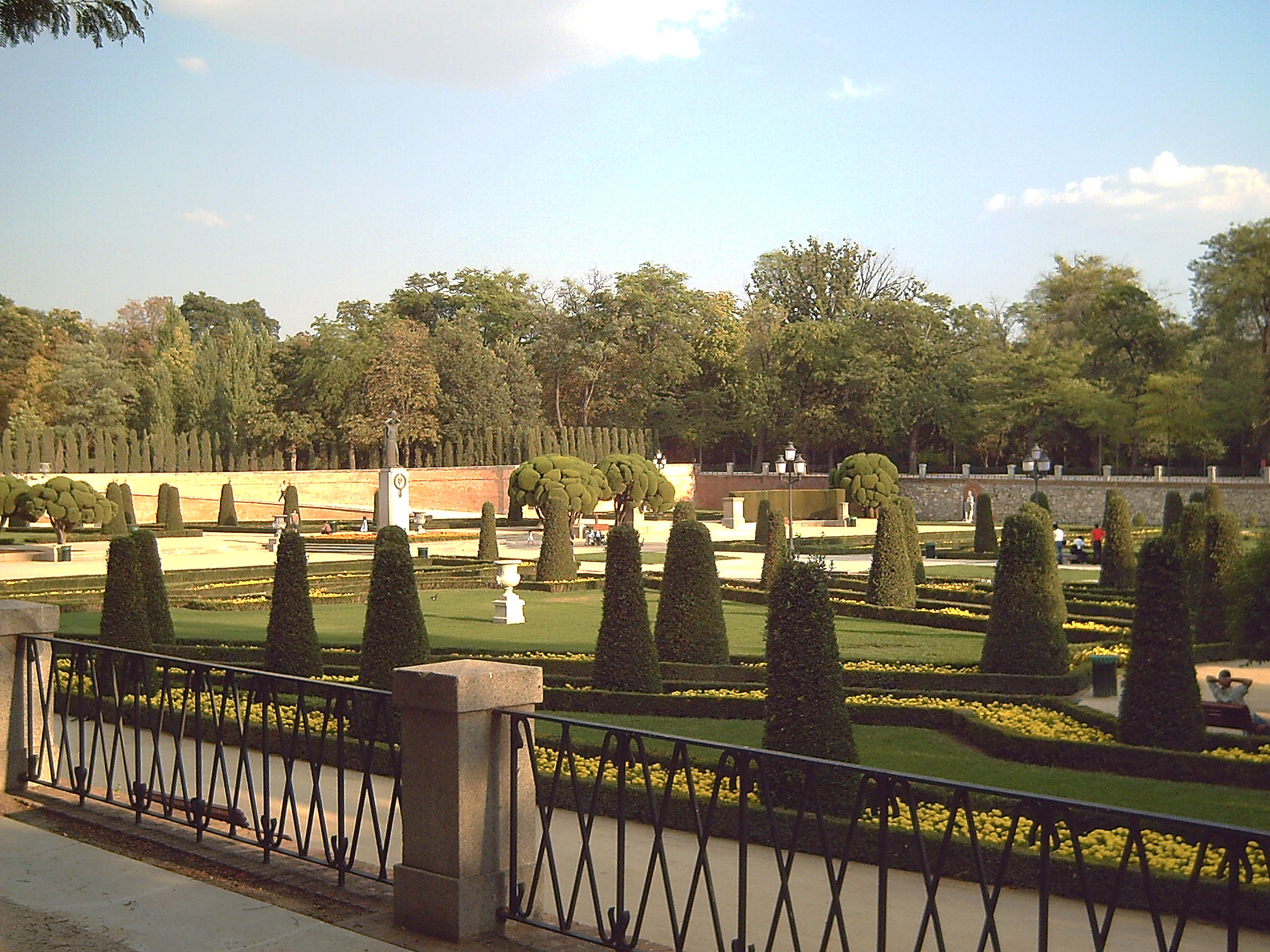 View of Plaza del Parterre. Part of Retiro Park in Madrid (Spain).